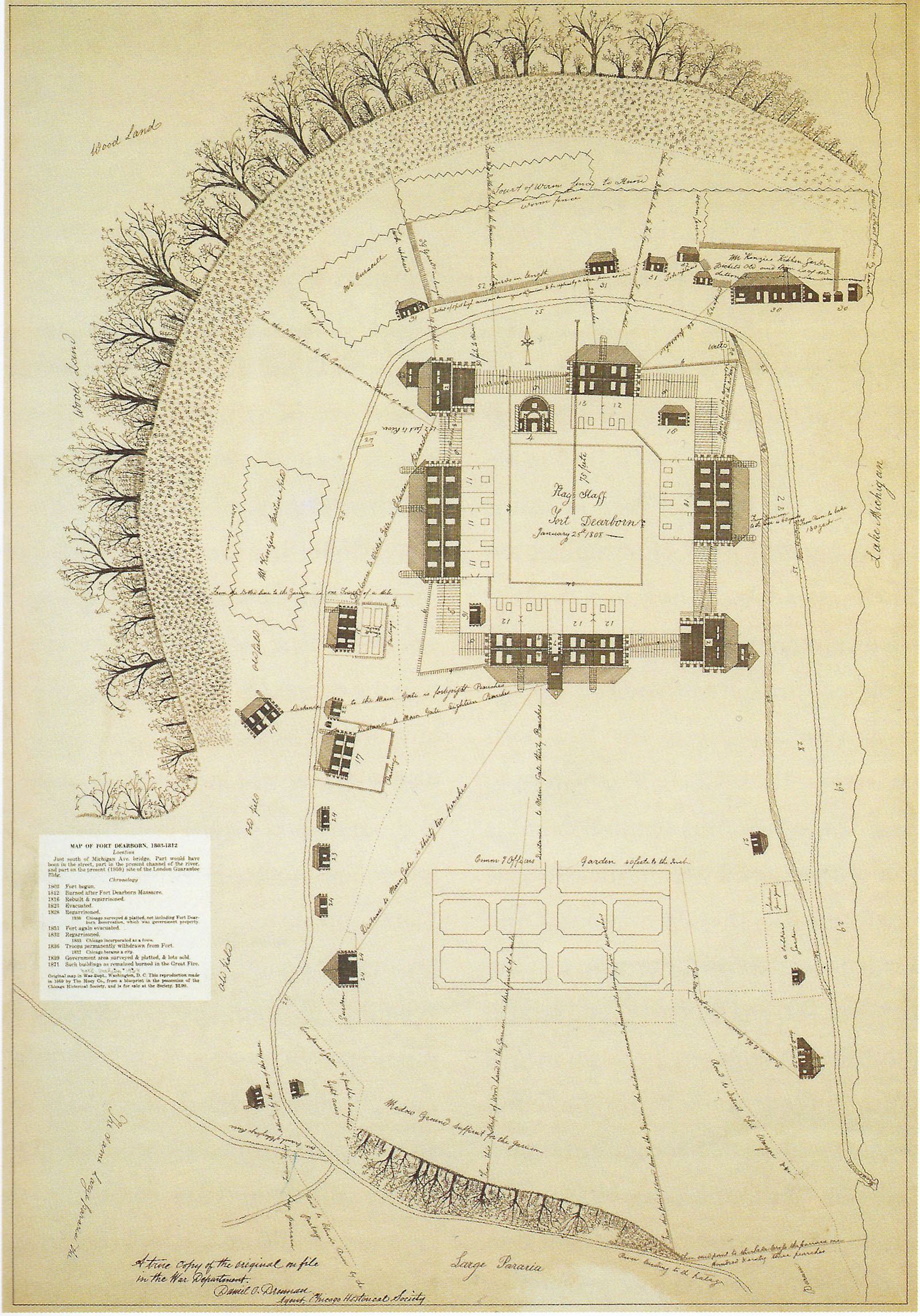 Map of Fort Dearborn in January 1808 by Captain John Whistler, commandant of the fort.